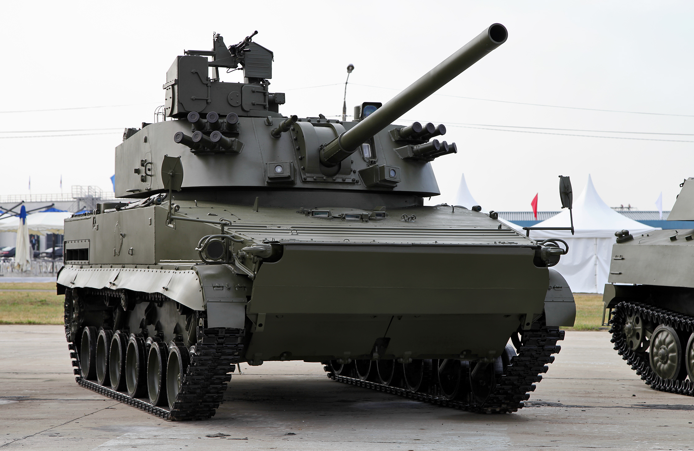 Russian self-propelled 120 mm mortar/cannon 2S31 Vena.